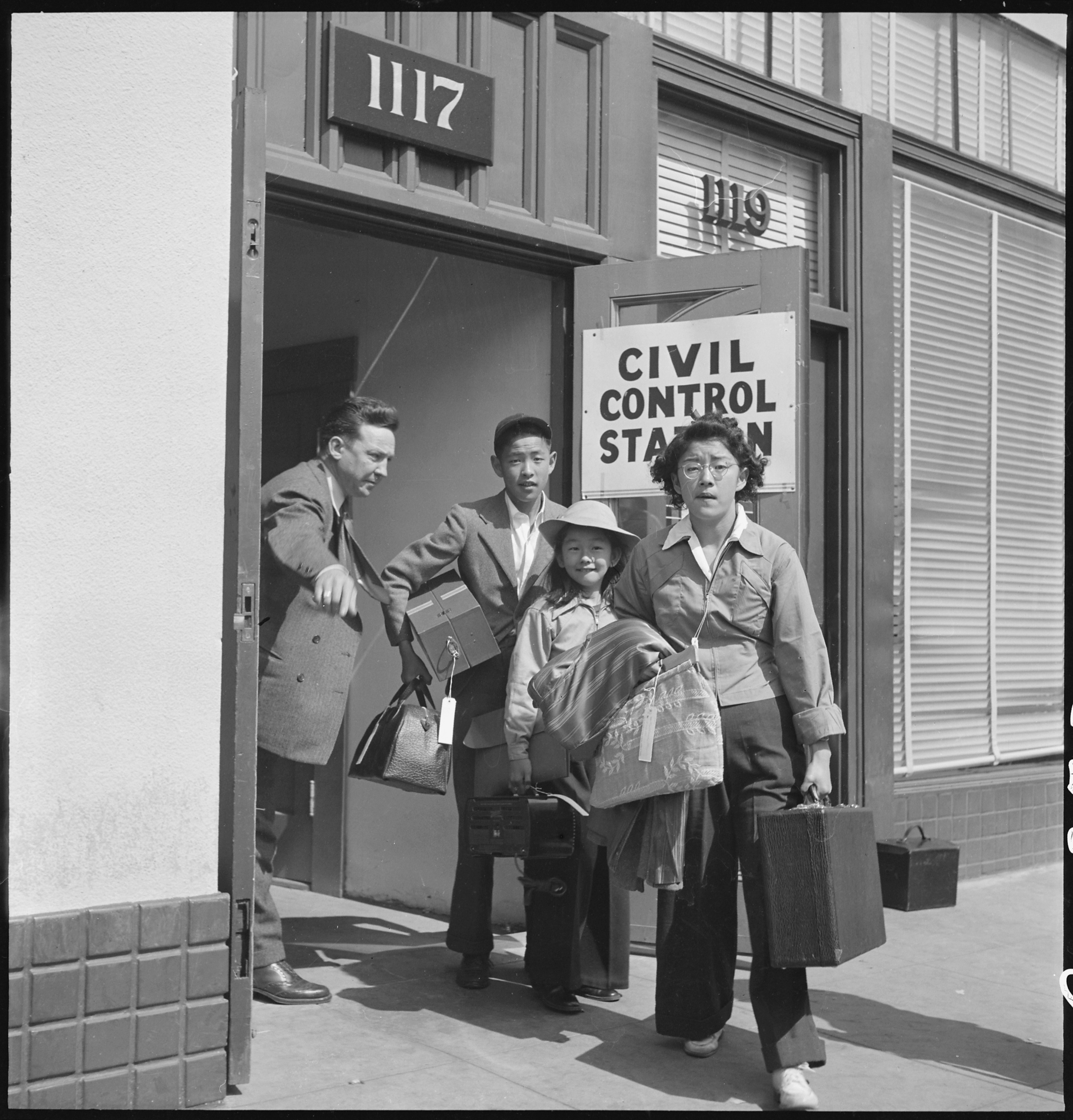 Scope and content: The full caption for this photograph reads: Oakland, California. Part of family unit of Japanese ancestry leave Wartime Civil Control Administration station on afternoon of evacuation, under Civilian Exclusion Order Number 28. Social worker directs these evacuees to the waiting bus.